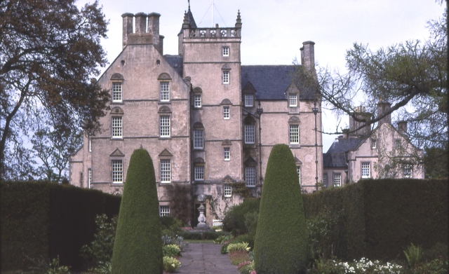 Innes House. The seventeenth century building incorporates older work. It was the seat of the Innes family, and is now available for special occasions.